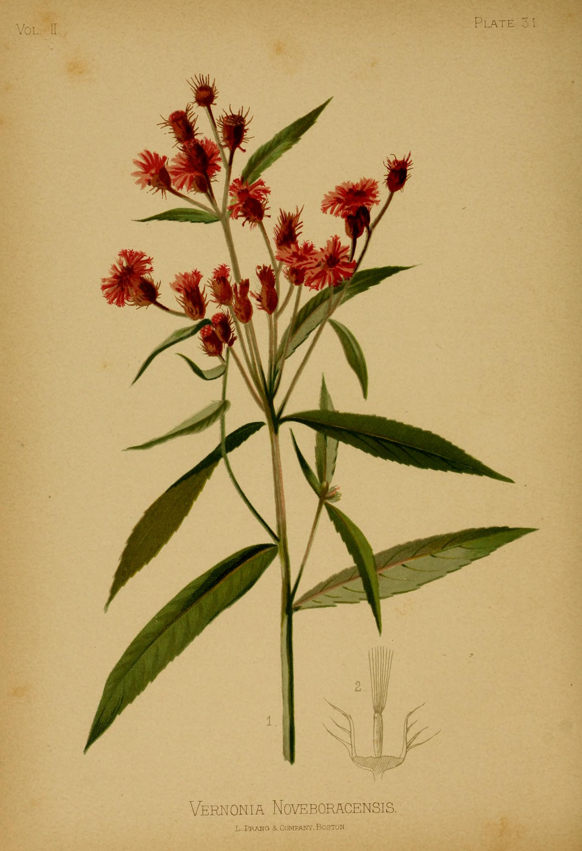 Title: The native flowers and ferns of the United States in their botanical, horticultural and popular aspects Year: 1879 (1870s) Authors: Meehan, Thomas, 1826-1901 Subjects: Wild flowers -- United States Ferns -- United States Publisher: Boston : L. Prang and Co. Text Appearing Before Image: specimen: Fromthe woods in the neighborhood of Lancaster, Penn., I obtaineda stock of Thalidrum auemonoidcs, Michaux, now growing inmy garden, whose flowers have nearly all stamens convertedinto petals. They are very delicate and beautiful, and look likeminiature white roses tinged with pink. There is little doubtbut these double flowers could be found oftener if looked formore attentively, and the search for them might give much zestto the rambles of the young flower collector. The Wind-Flower Meadow-Rue, although an exclusivelyAmerican plant, seems to have been entirely neglected by ourpoets; and this is due, no doubt, to the fact that it has generallybeen confounded with the Anemone. Material uses, medicinal,economic, or otherwise, it also has none; and the only excusefor its existence must, therefore, be sought in its beauty. Explanation of the Plate. — i. Full-sized flower-stem, with root attached, in early May.— 2. Stems, with half-mature seeds, m early June. .bL.-lI. Plate Text Appearing After Image: Vernonia Noveboracensis. L Prabg & CoMPAm.BosTon